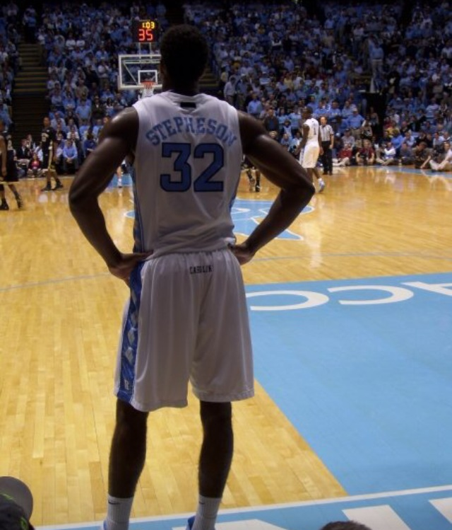 Alex Stepheson UNC